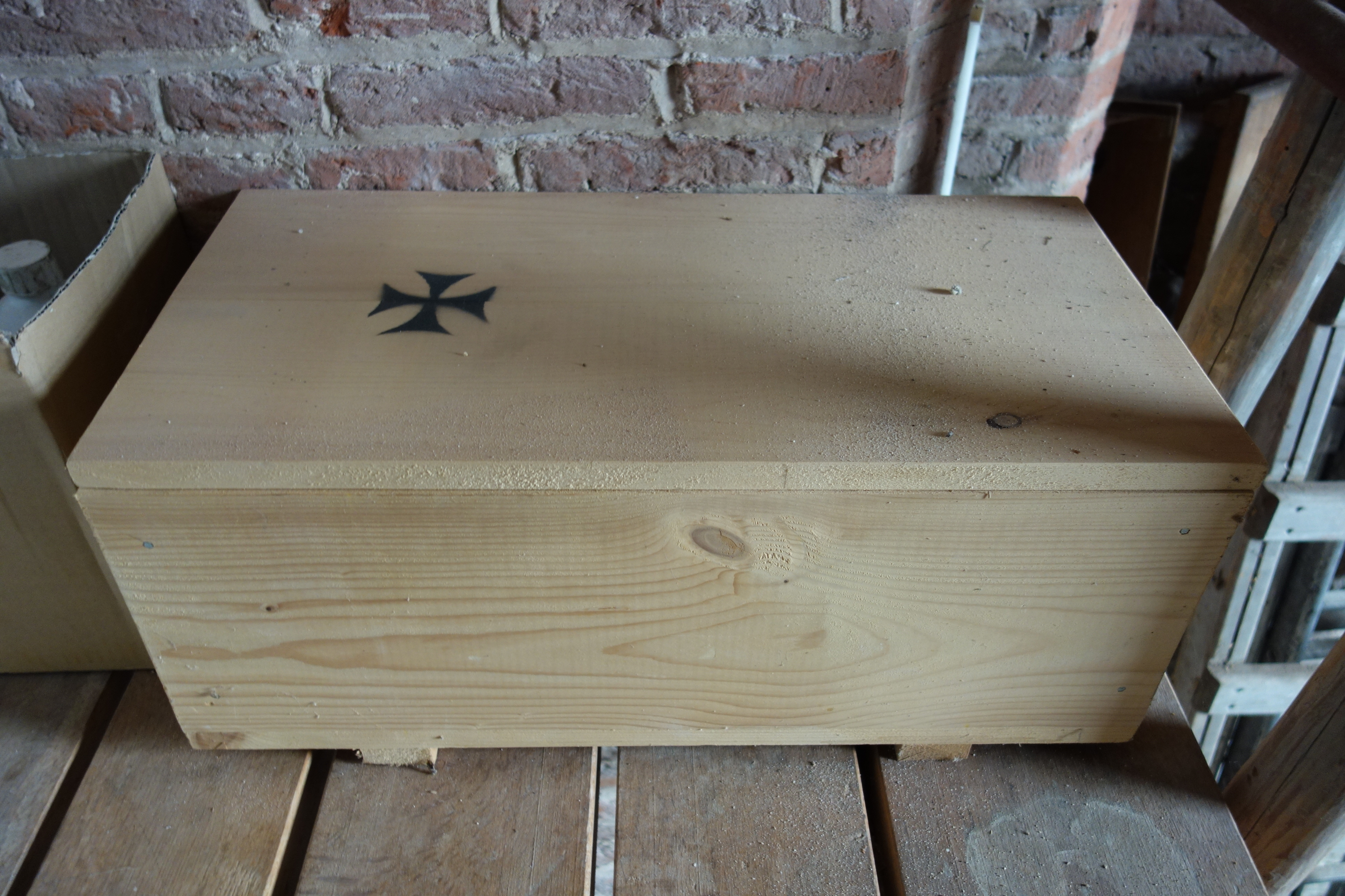 Wooden coffin for reburrial. In 2010 ten nuns from the Bethlehem monestery (1475-1573) in Blokker were reburried besides the now Reformed Church at Westerblokker. This coffin was made as extra and is not being used.